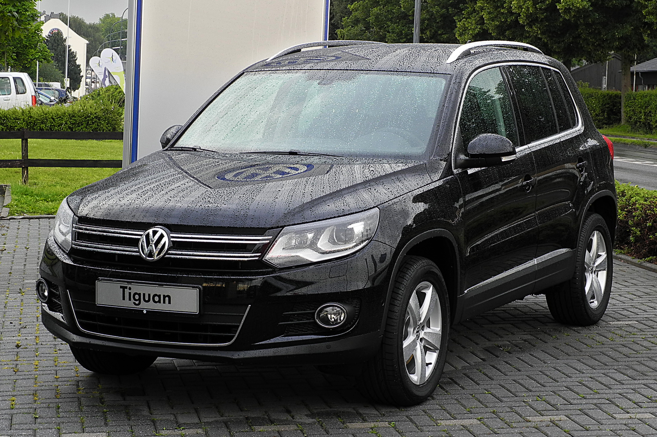 VW Tiguan Sport & Style 2.0 TDI 4MOTION BlueMotion Technology (Facelift)